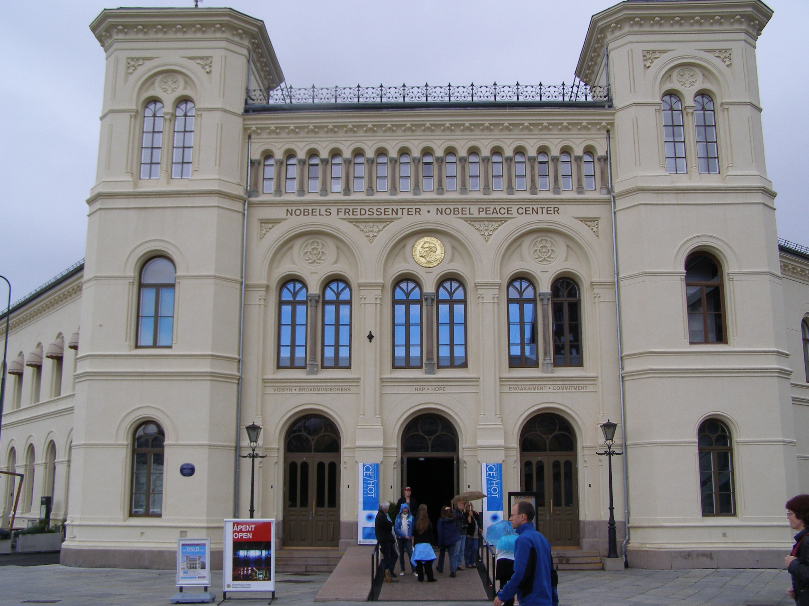 Nobel Peace CenterNobel Peace Center